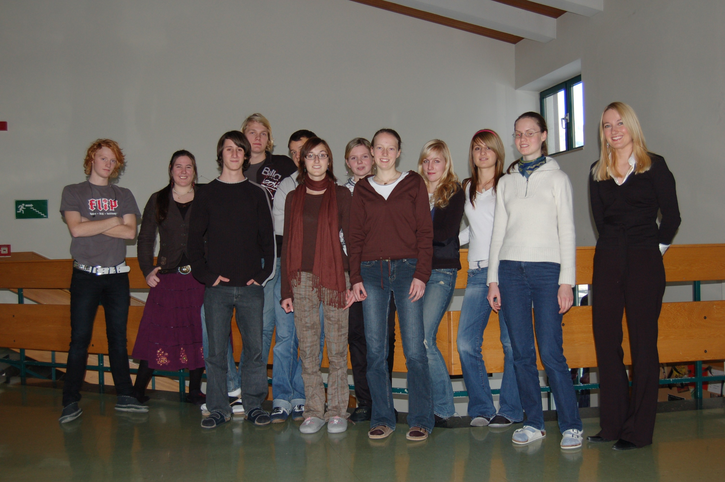 Class Angelika Themel, text translated by the Vocational English group of the local Grammar School, the BG/BORG